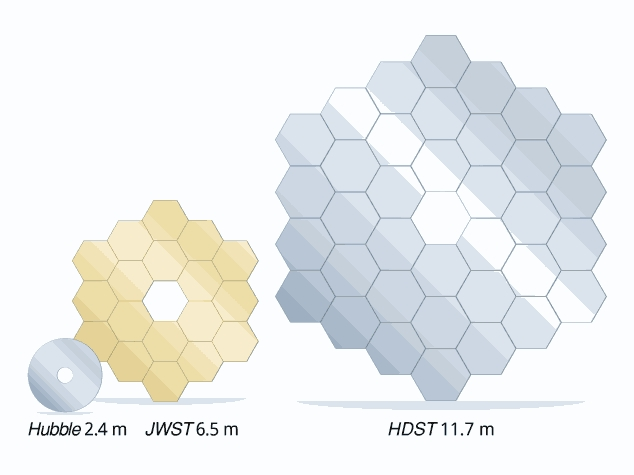 A direct, to-scale, comparison between the primary mirrors of the Hubble Space Telescope, James Webb Space Telescope, and the proposed High Definition Space Telescope (HDST)